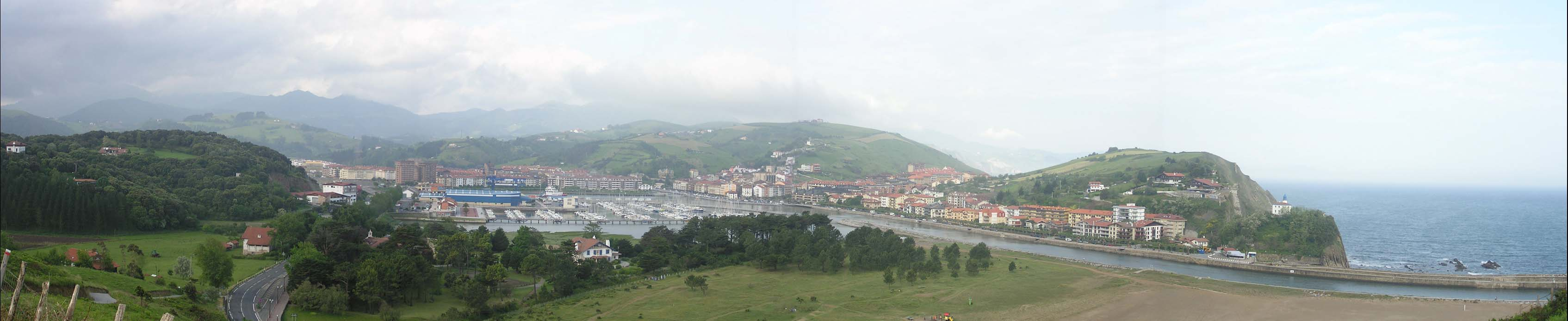 Panorama of Zumaia taken from country hotel